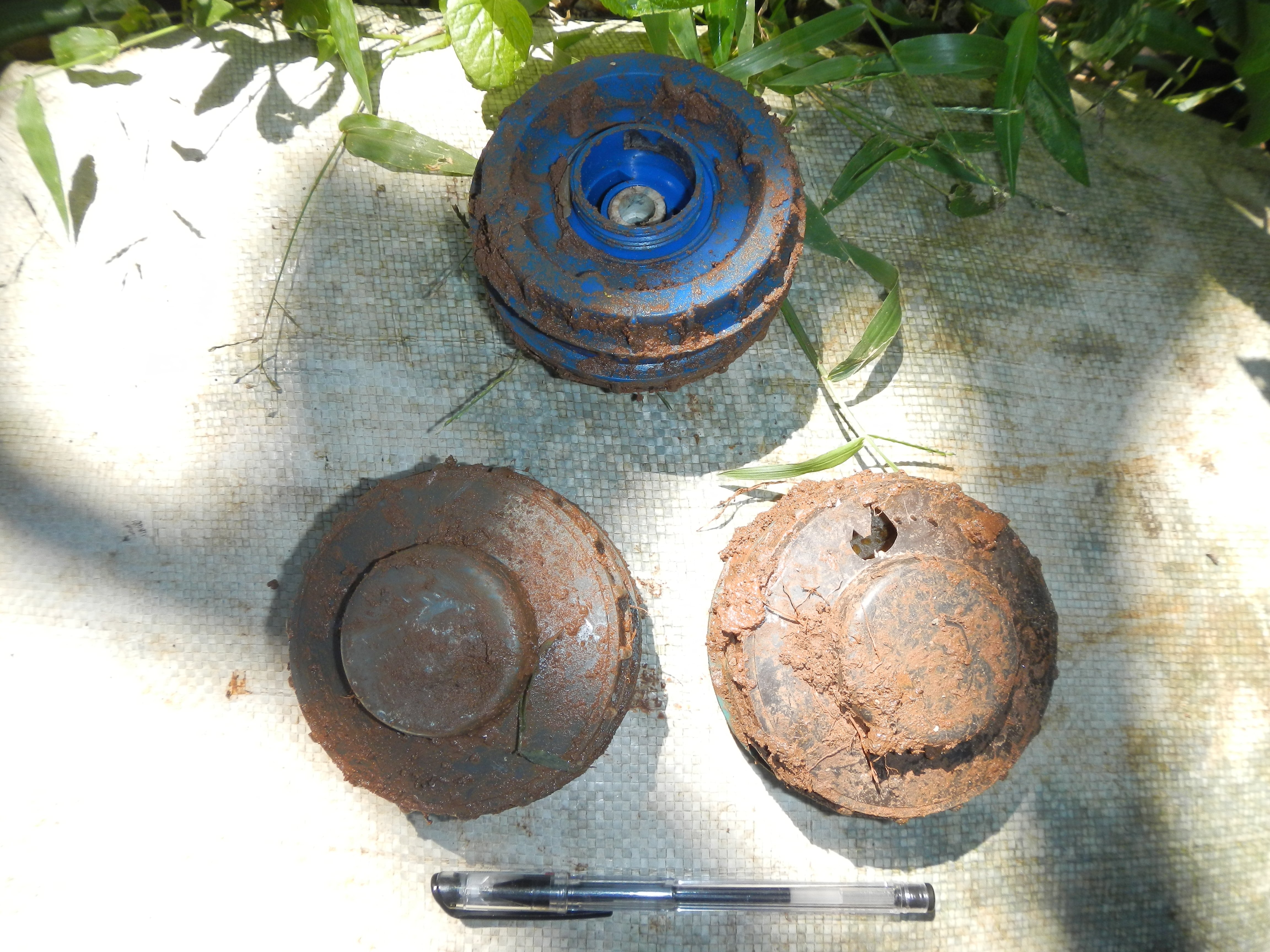 This is a photo of Jony 99 also known as Rangan 99 Anti personal mine. This photograph was taken at DDG - Danish Demining Group in Maruthamadu GN division close to Omantai Checkpoint storage pit.